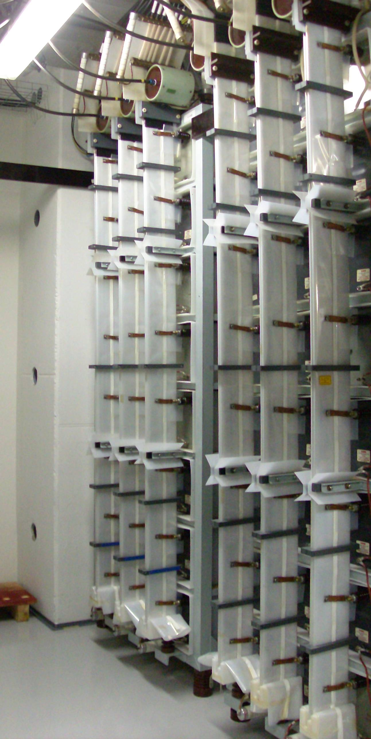 Photograph of the Prague Asterix IV Laser System capacitor bank, driving the xenon flashlamps in the laser hall upstairs. There are about 10 such racks in the basement of building. On top, you can see triggered spark gaps (grey cylinders) used to switch the electric pulse.